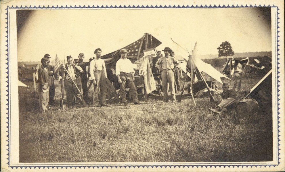 159th New York Volunteer Infantry at Donaldsonville, Louisiana. Note: 159th NYSV arrived in Donaldsonville 28 March 1863; departed 31 March 1863 for Thibodeaux; Returned 11 July 1863; departed 16 July for Carrolton; Did not return. From, "History of the 159th regiment, N.Y.S.V." New York, 1890.